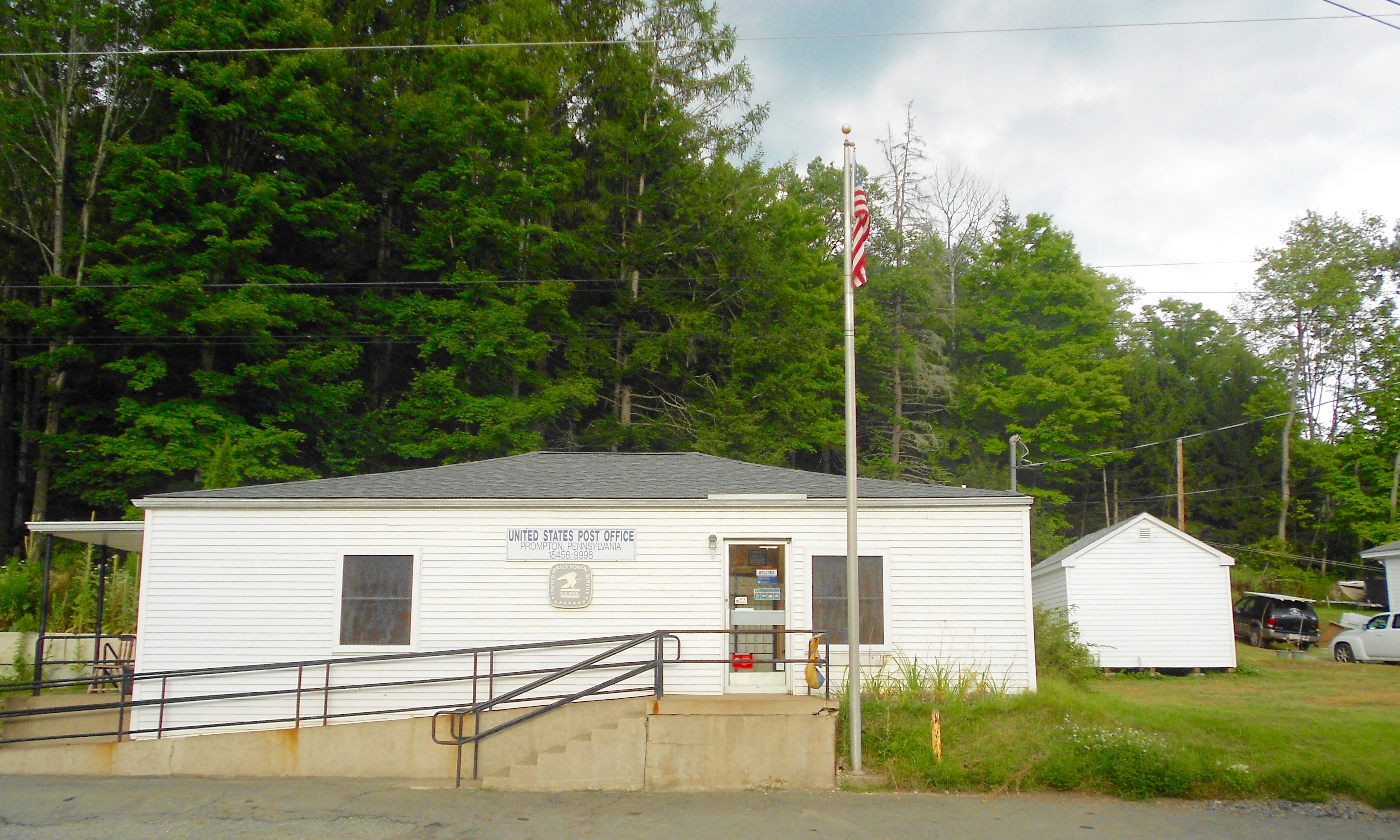 Post office in Prompton, Pennsylvania. Zipcode 18456-9998